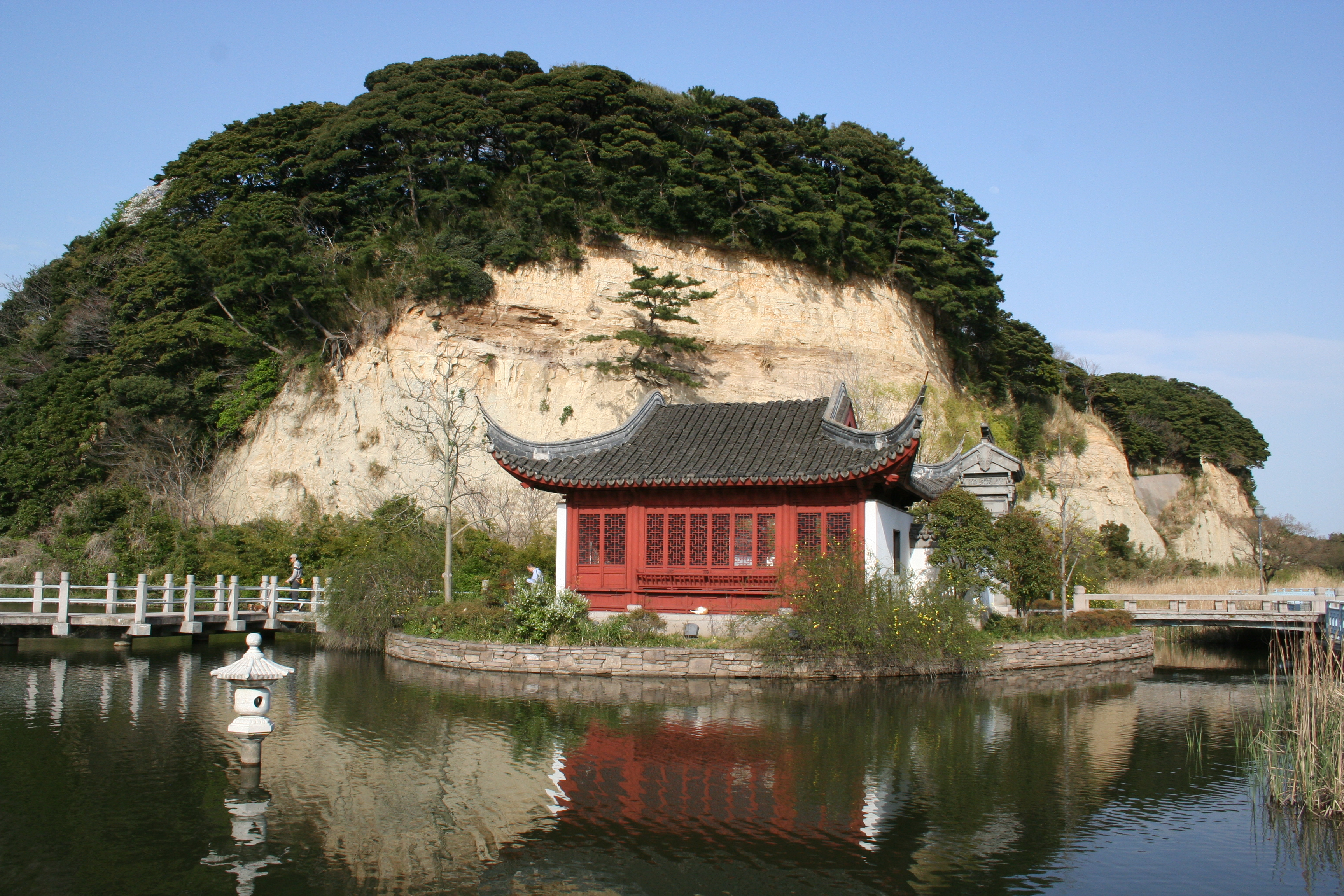 The Shanghai Japan Friendship Garden in Negishi, Yokohaman, next to the Sankei-en garden